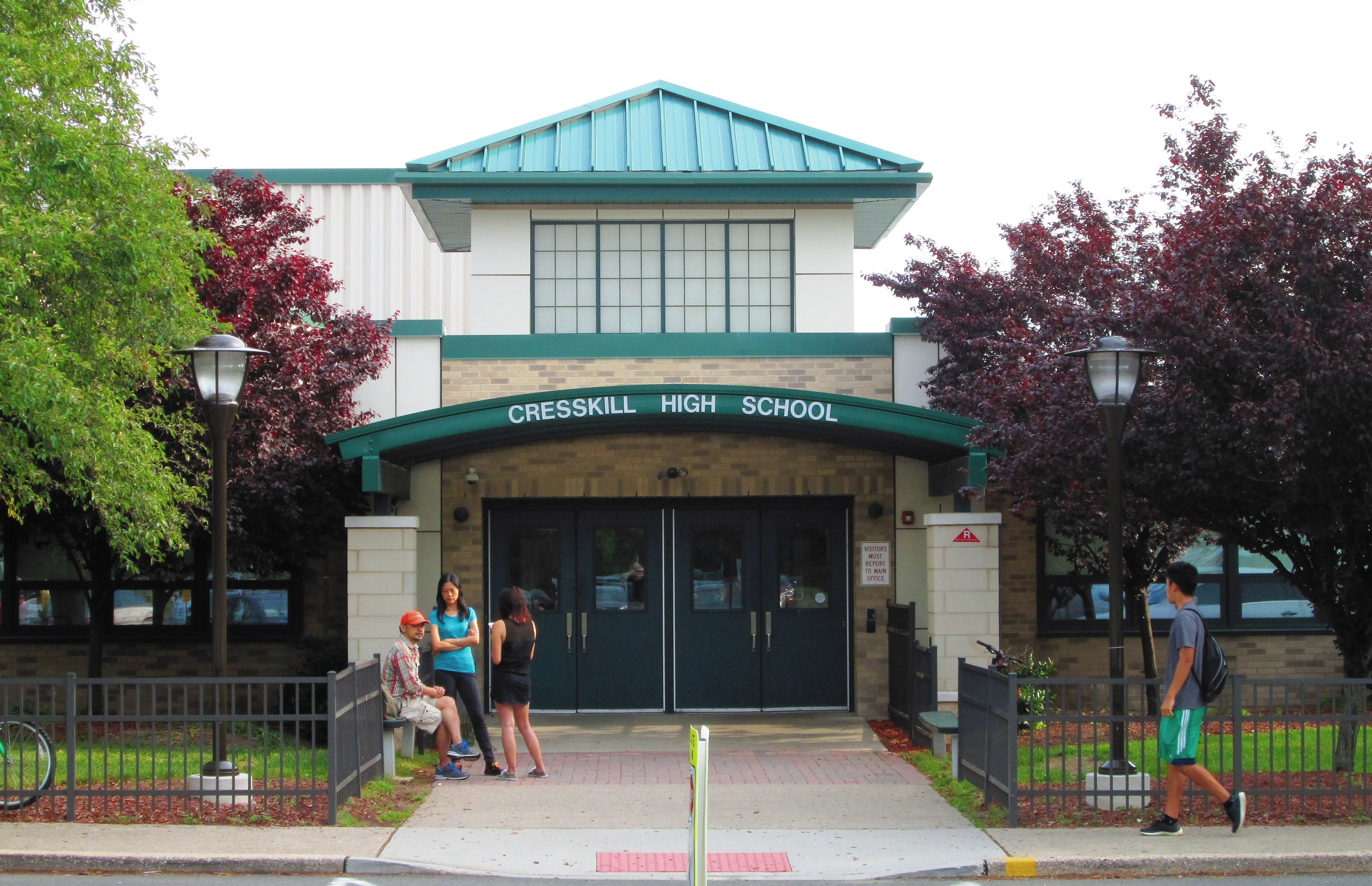 Cresskill High School is located at 1 Lincoln Drive in Cresskill, New Jersey. It was founded in 1962.